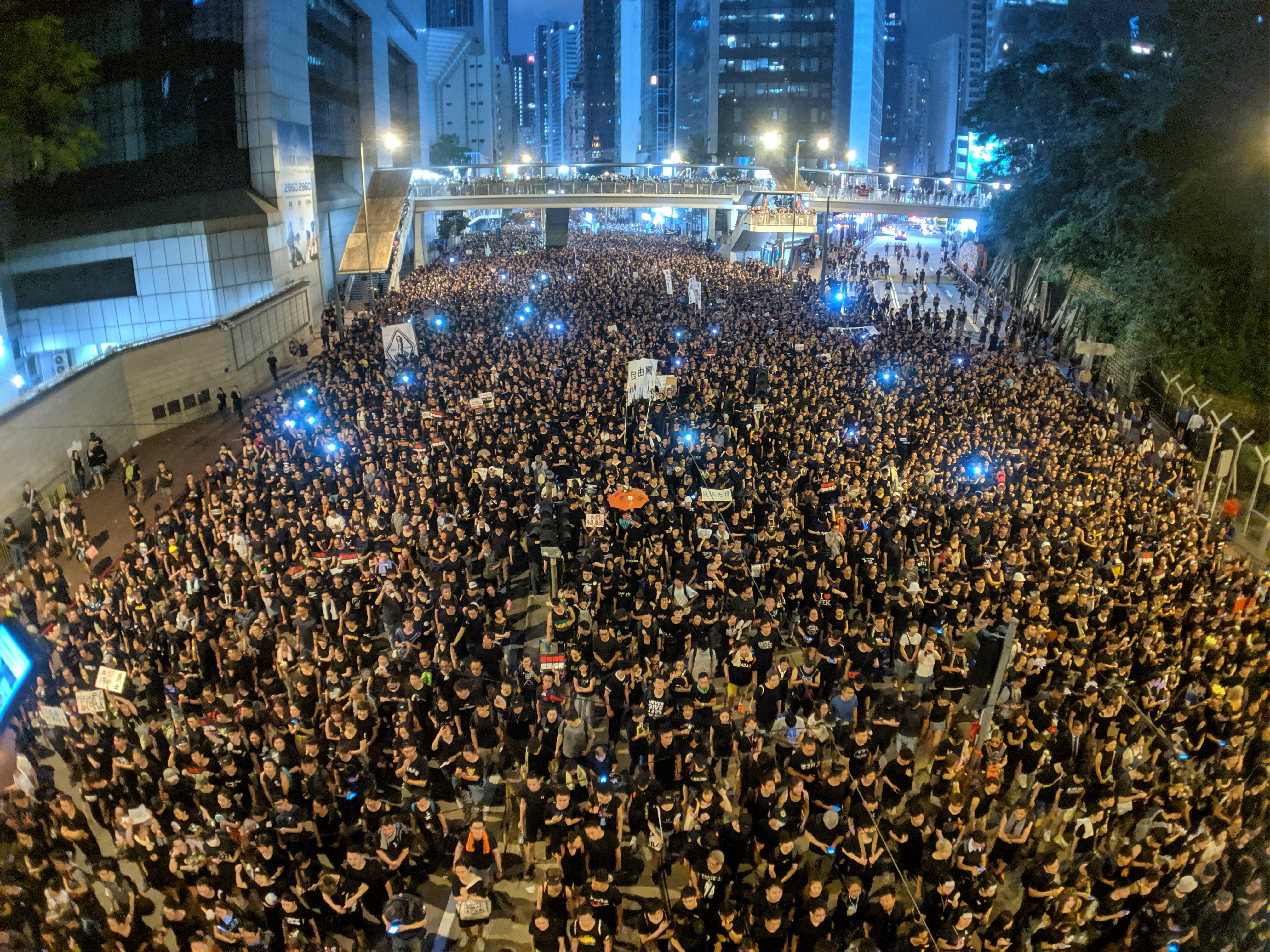 2019 Hong Kong anti-extradition law protest on 16 June, captured by Studio Incendo from Flickr.